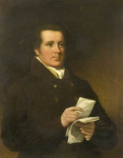 Portrait of Thomas Gardiner Bramston (1770–1831), English politician.